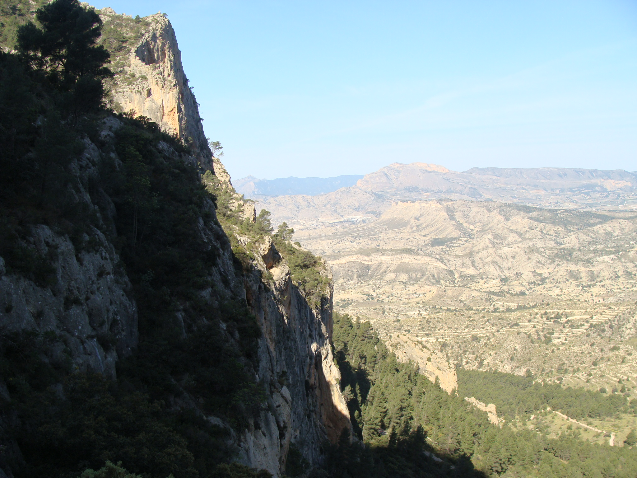 Cabezón de Oro (Cabeçó d'Or). A mountain in Spain.